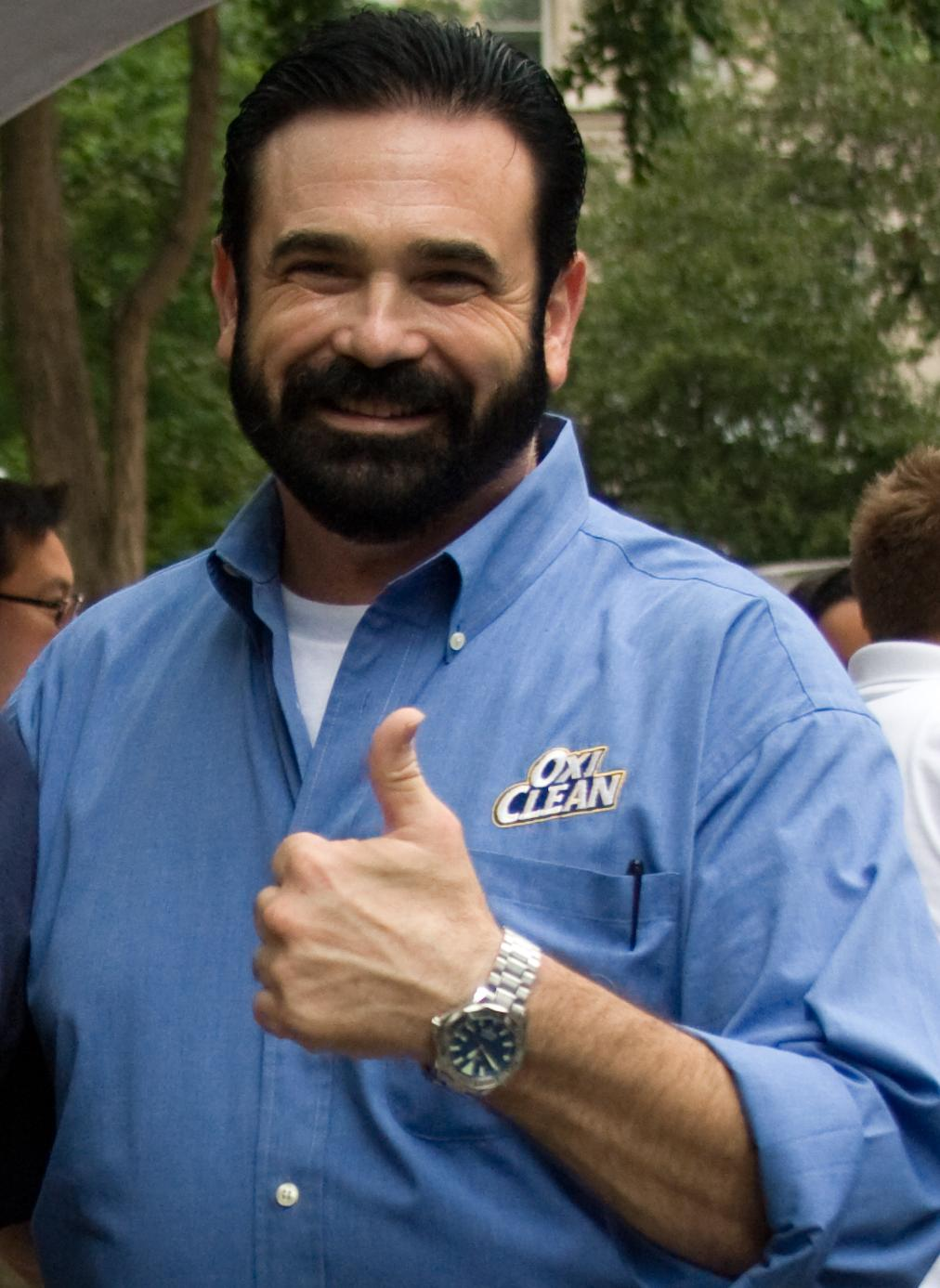 goon meet (Photo of Billy Mays)